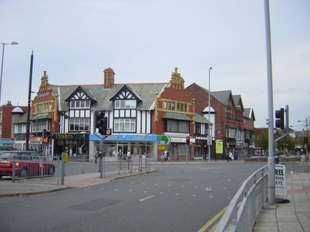 Crown Buildings, Crosby. Crosby takes its name from the Old Norse for village of the cross, settled in 900AD by Norsemen who came from the Isle of Man and Ireland. This ancient village was merely a cluster of cottages until the growth of industry and commerce in the 18th century encouraged many Liverpool businessmen to look to the coast north of the city to build their homes. Crosby shopping centre stands at the top of Liverpool Road, a mish-mash of architectural styles not all as pleasing to the eye as Crown Buildings.